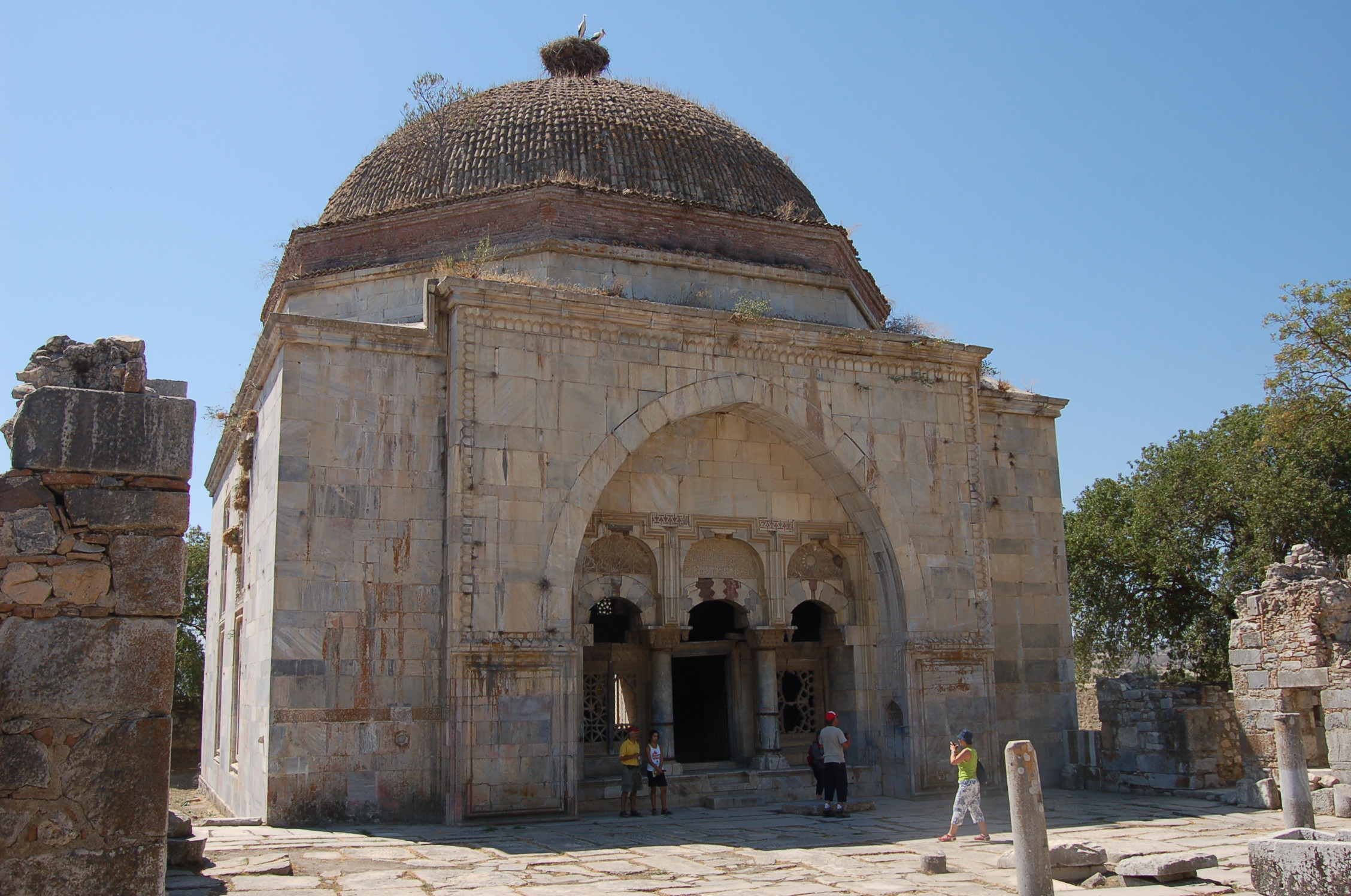 Exterior of Ilyas Bey Mosque, Miletus